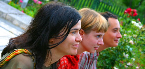 A sample image for image burning -- this image is burned by applying too much saturation. Copyright Gutza 2004